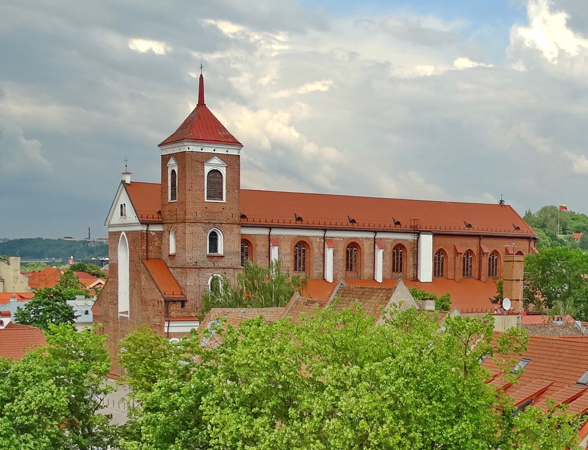 Kaunas Cathedral of Sts Peter & Paul